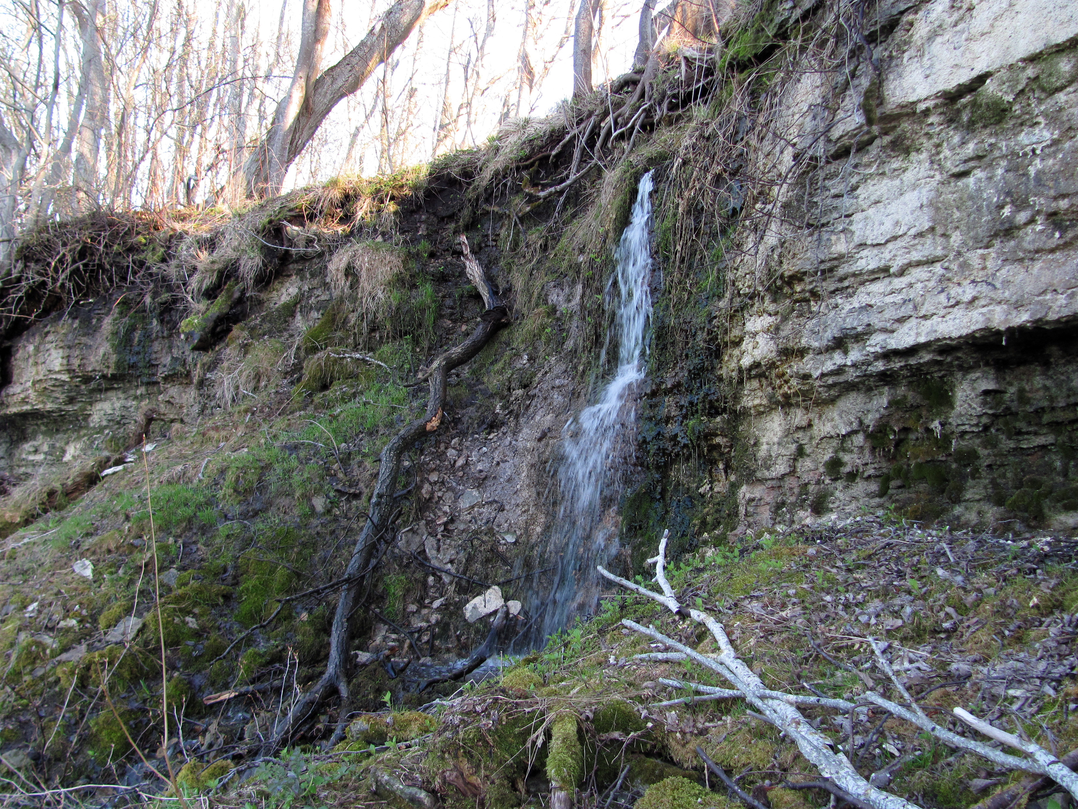 Põllküla waterfall, Pakri peninsula, Estonia